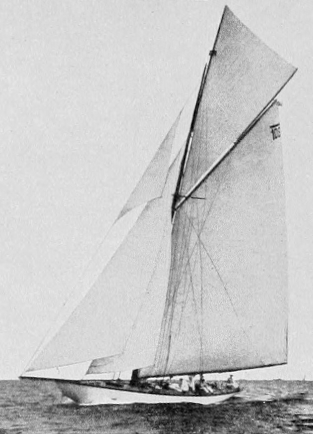 Magda IX, Norway's winning boat at the 1912 Summer Olympics in the 12m sailing class